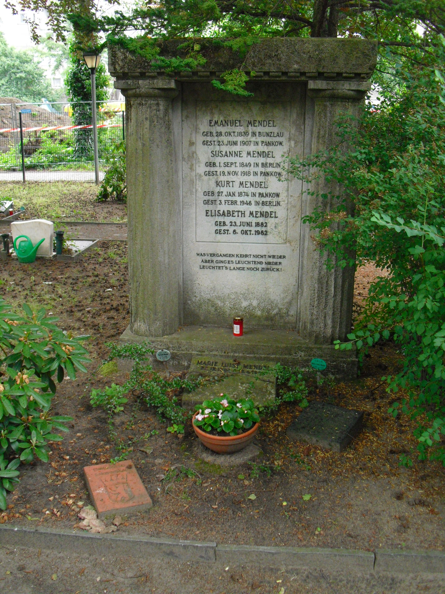 Grave of Emanuel Mendel in Urnenfriedhof Gerichtstraße in Berlin-Wedding.